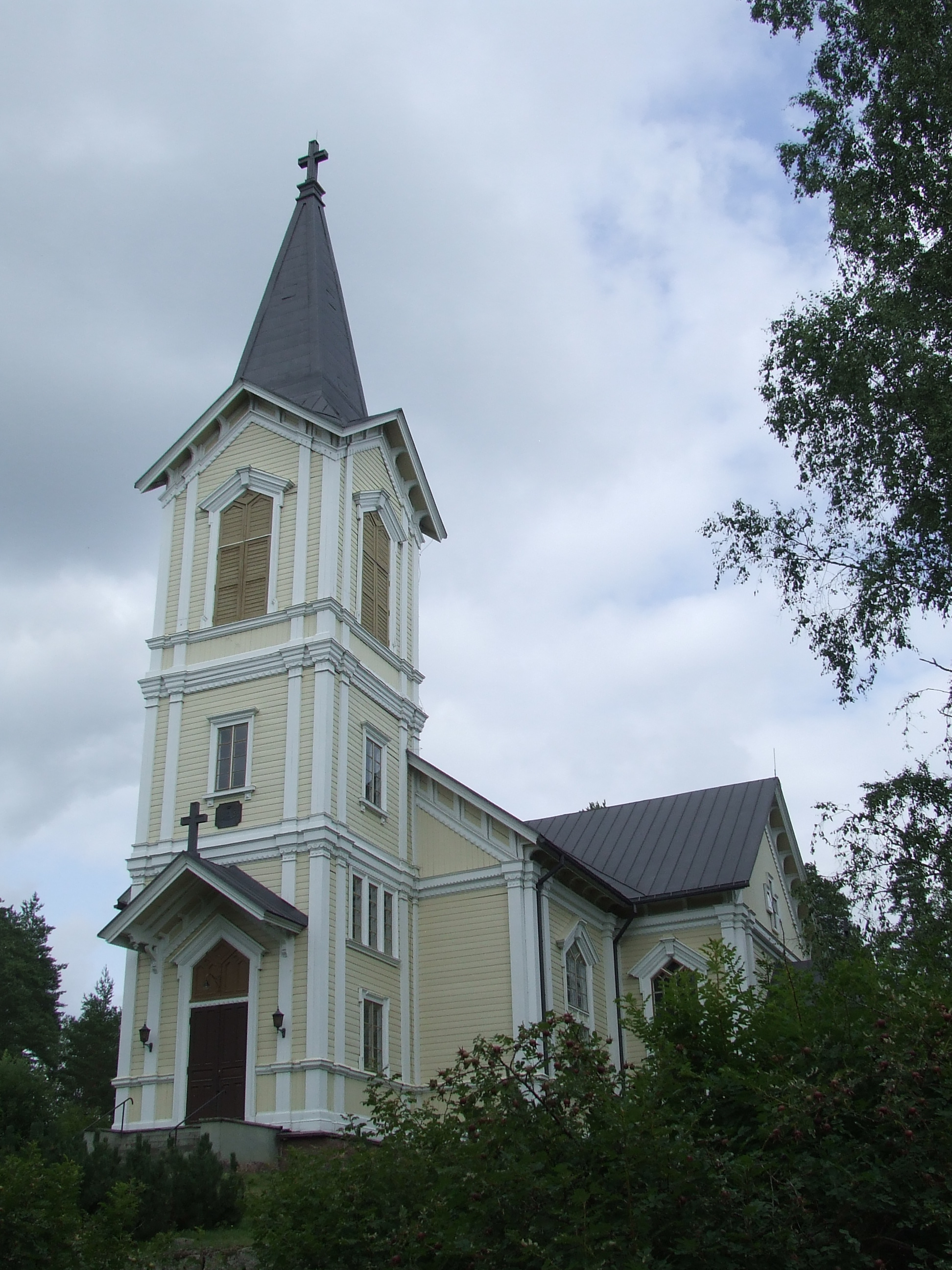 Liljendal church in Loviisa, Finland.